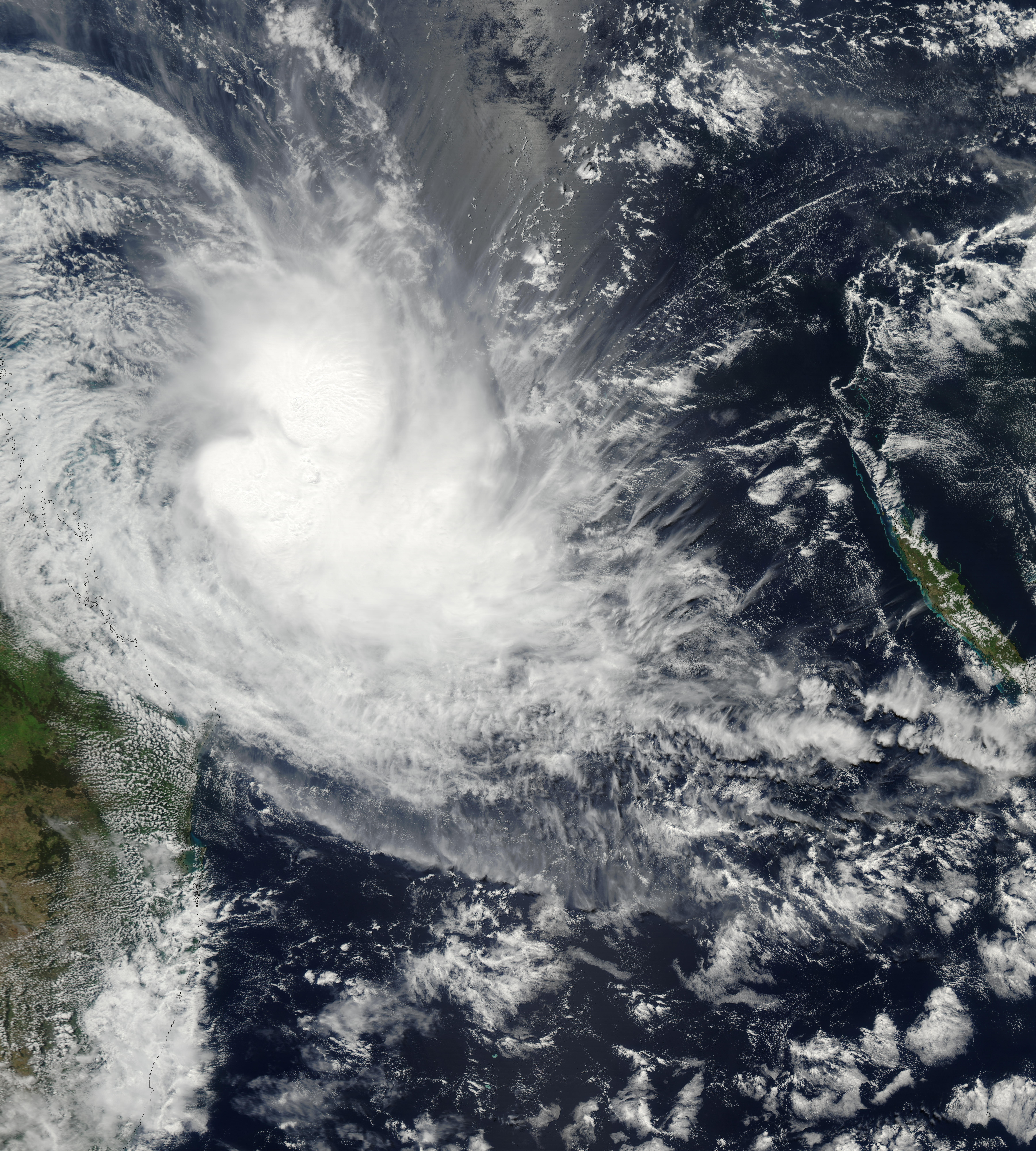 With sustained winds near 64 km per hour (40 mph), Tropical Cyclone Erica (22P) was located approximately 632 miles east-southeast of Cairns, Australia, and was moving towards the southeast at 22 km per hour (14 mph) on the day this image was acquired—March 4, 2003. The image was captured by the Moderate Resolution Imaging Spectroradiometer (MODIS) aboard NASA’s Aqua satellite.